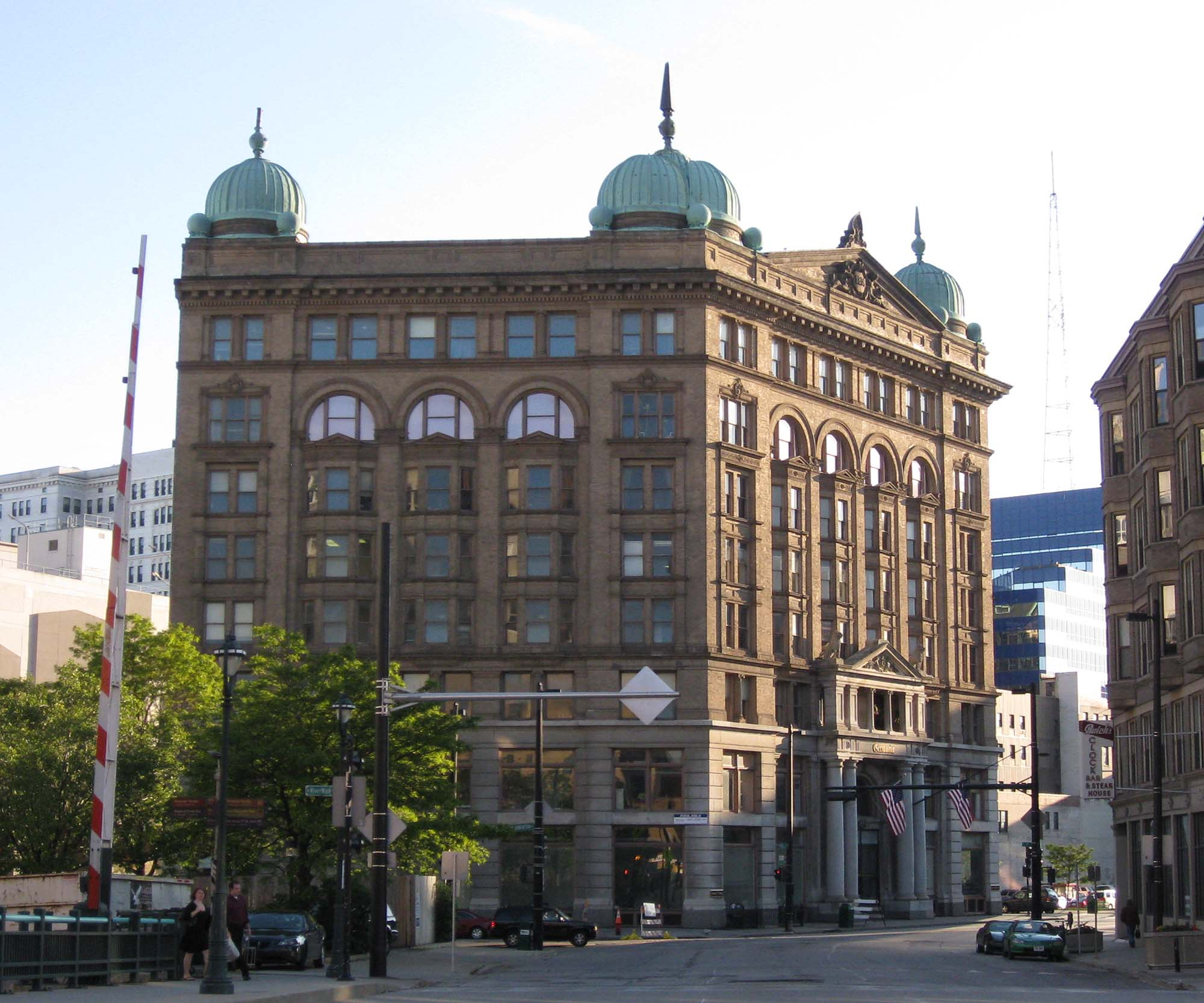 The Germania Building, National Registered Historic Place in Milwaukee, Wisconsin